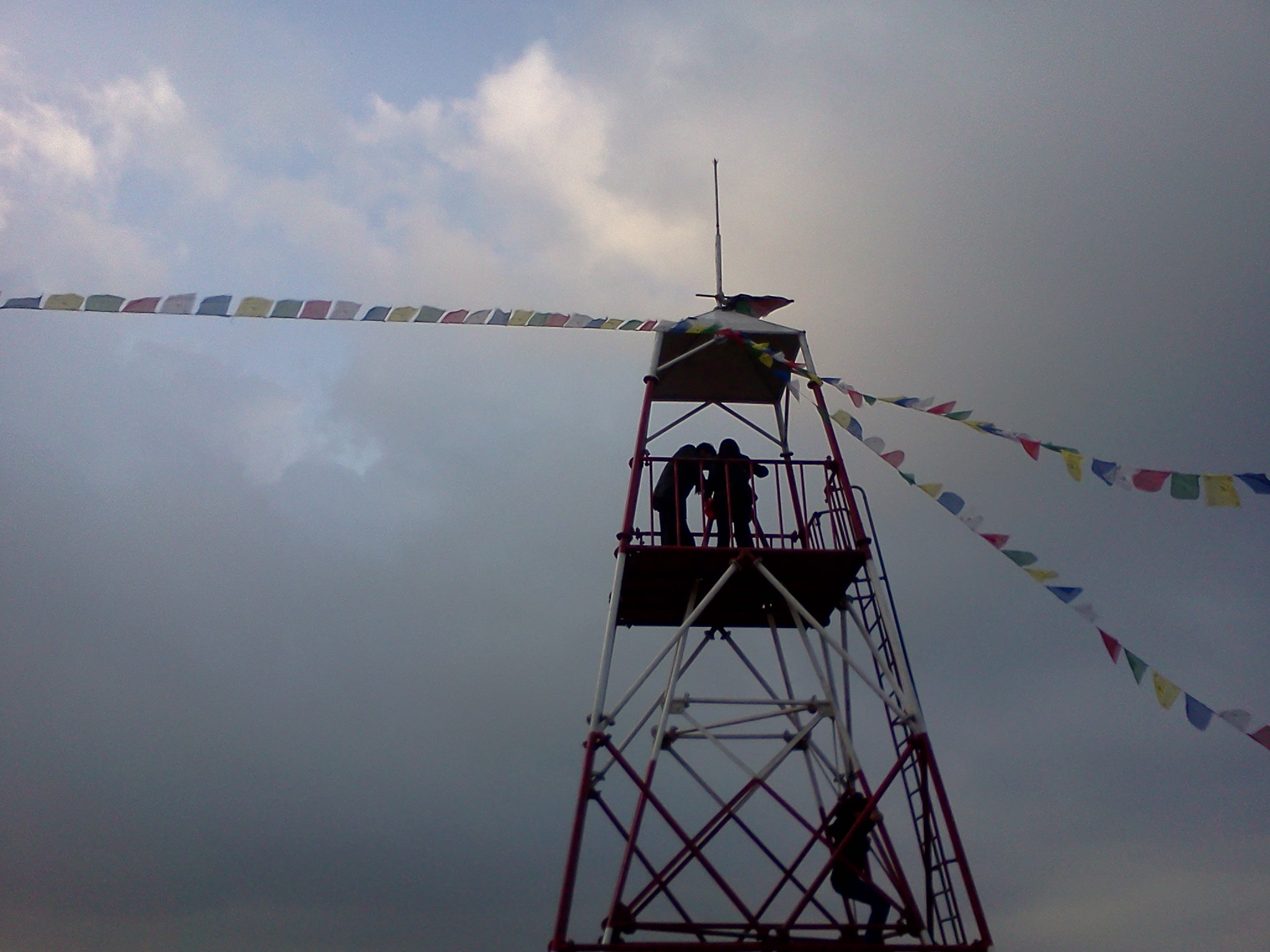 Nagarkot Geodic Survey Tower Nagarkot Nepal